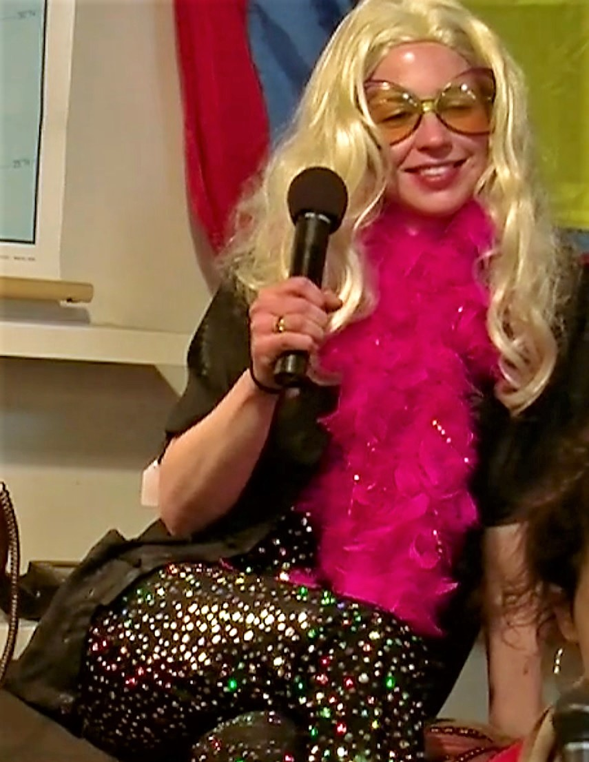 Highlights from the March 2013 live episode of Dale Radio Host: Dale Seever Guests: Lecy Goranson Justin Weinstein Ilana Glazer Shot at Film Biz Recycling, Gowanus, Brooklyn Shot and edited by Bill Scurry/AmericanCaesar Enterprises